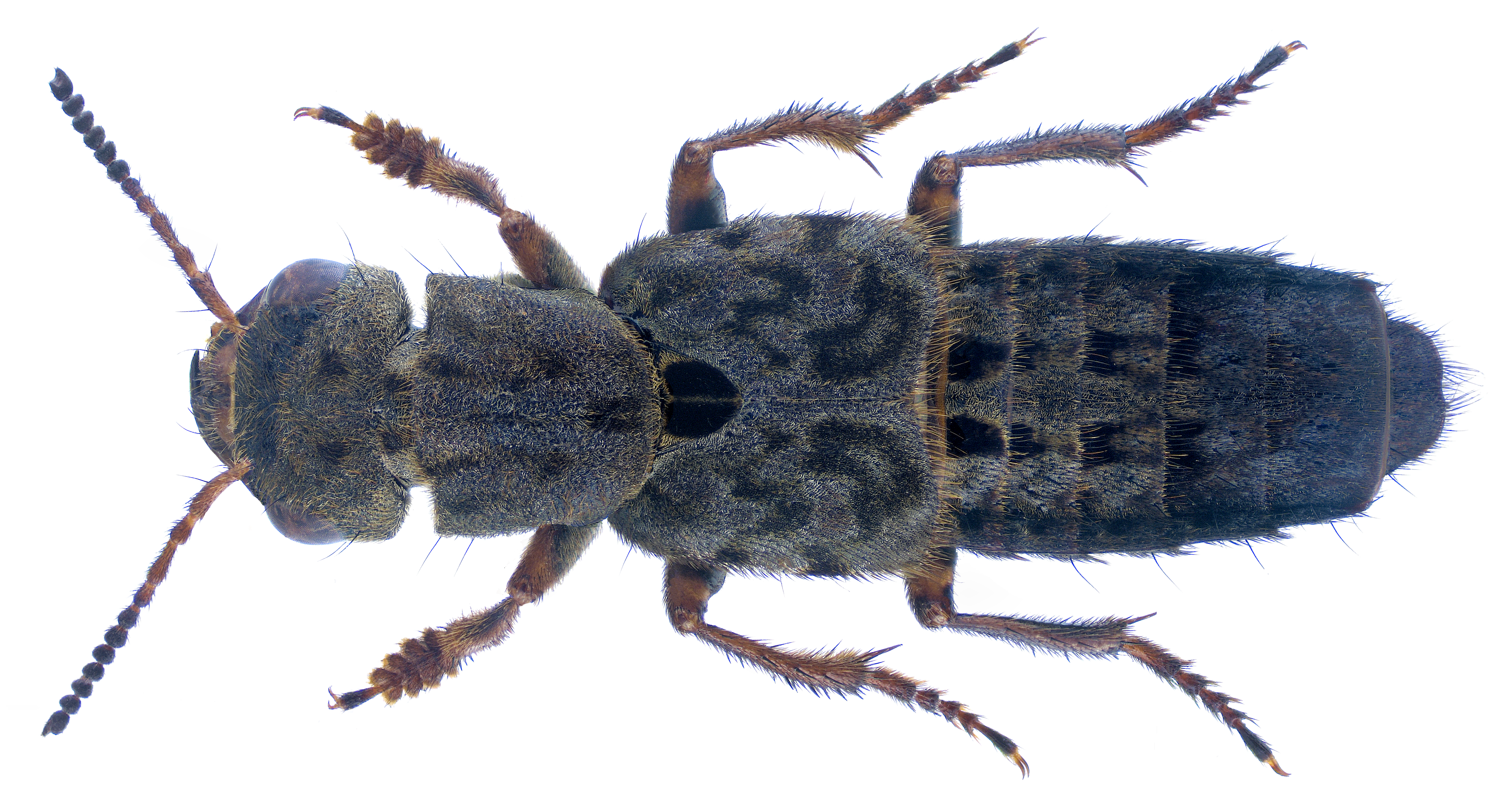 Ontholestes tessellatus (Geoffroy, 1785) Family: Staphylinidae Size: 18.3 mm (13.0 to 20.0 mm) Origin: Transpalaearctic Ecology: In dung and in other rotting substances Location: Germany, Bavaria, Upper Franconia, Selbitz, Dietscha valley leg.det. U.Schmidt, 25.V.2001 Photo: U.Schmidt, 2018